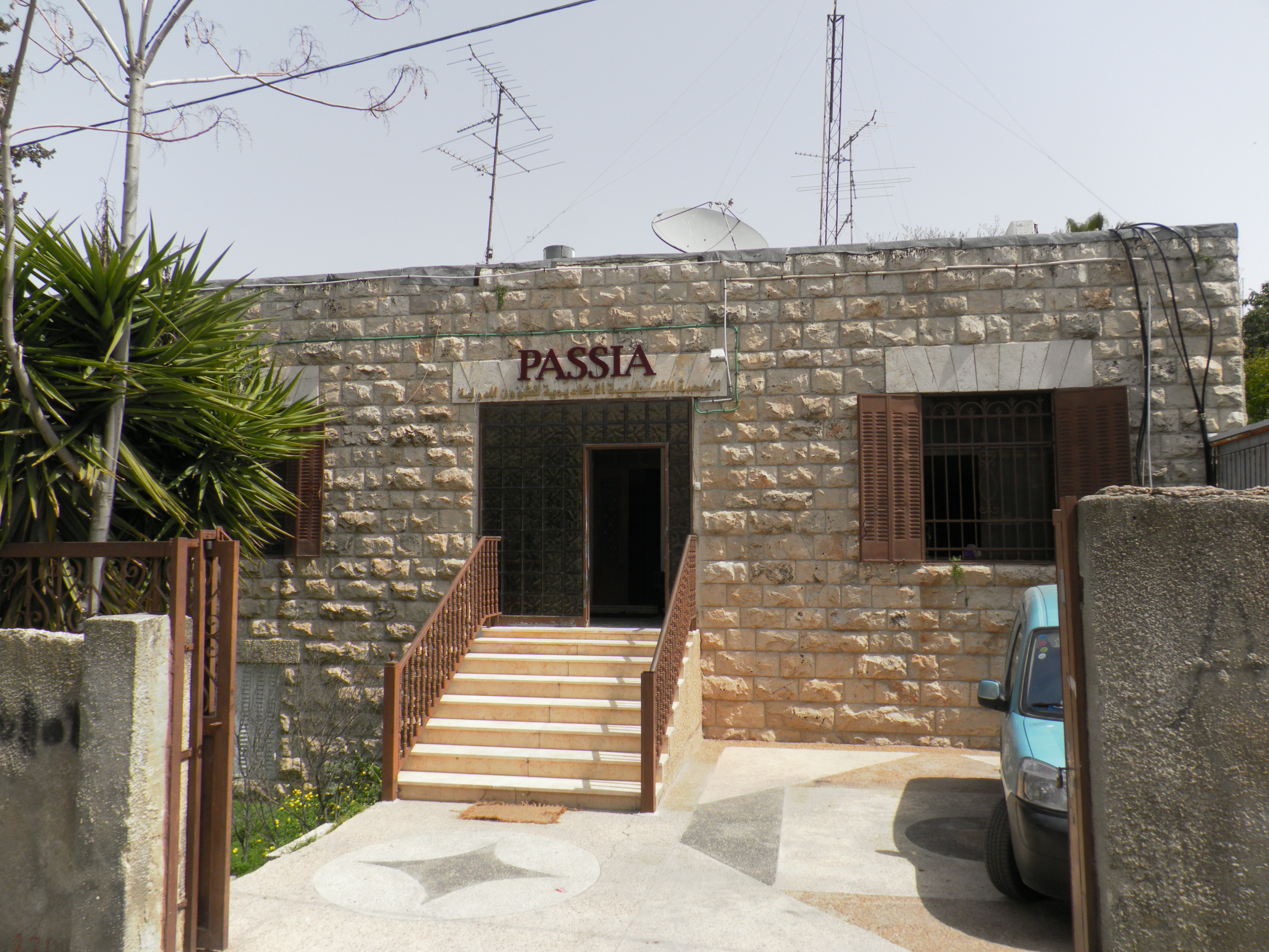 Offices of PASSIA (Palestinian Academic Society for the Study of International Affairs) in East Jerusalem, 18, Hatem Al-Ta'i Street - Wadi Al-Joz.